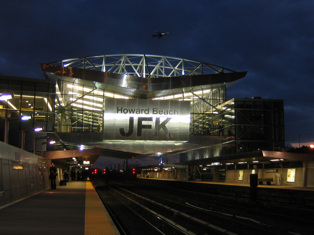 Howard Beach–JFK station on the IND Rockaway Line, next to the airport.